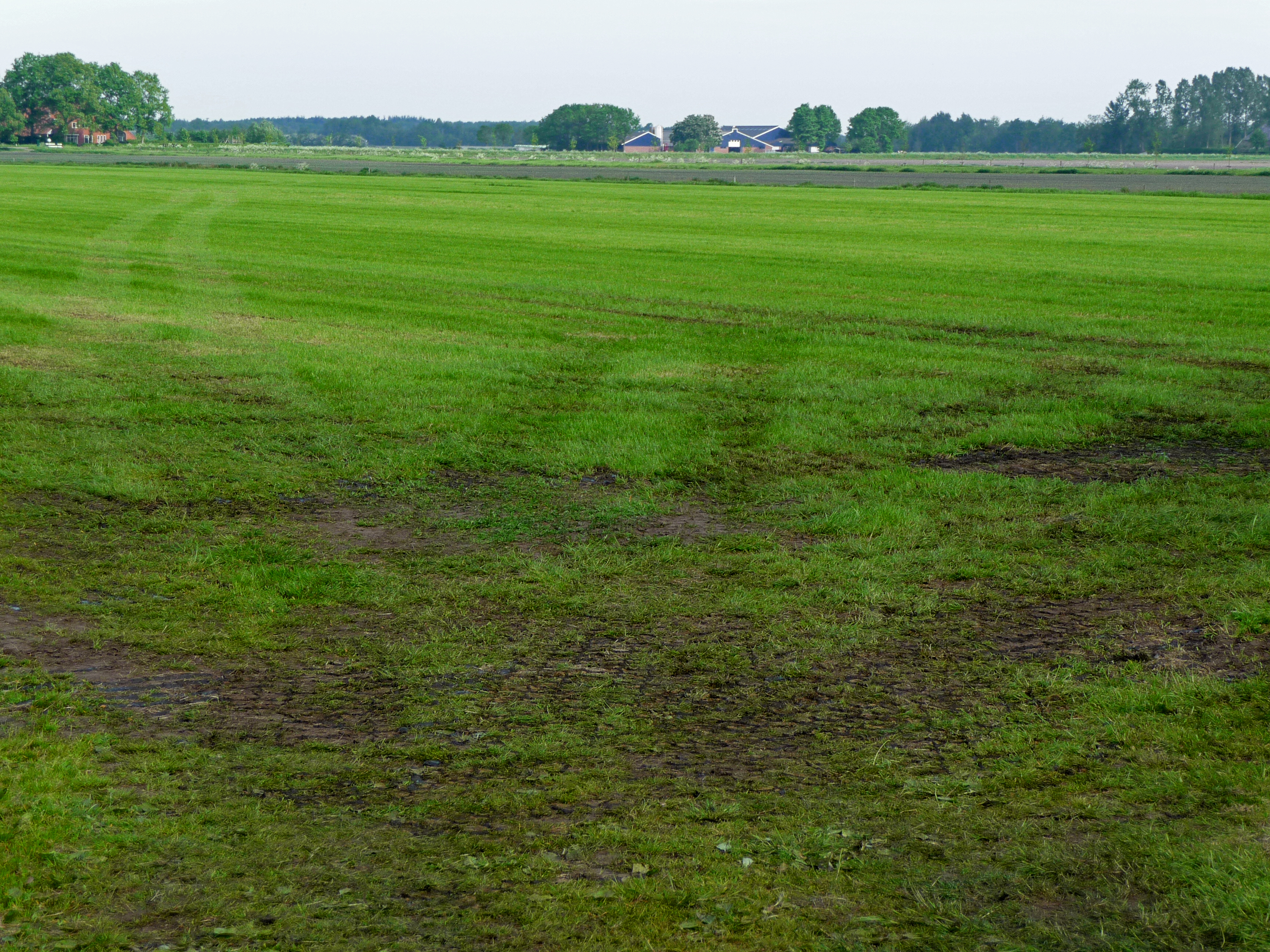 This photo shows the tracks of the carves in the grass by the wheel-knives made by the Dutch farmers, used to let imbibe the liquid muck, to avoid that the it will disappear in the air. This is set officially by the EU rules of agriculture.